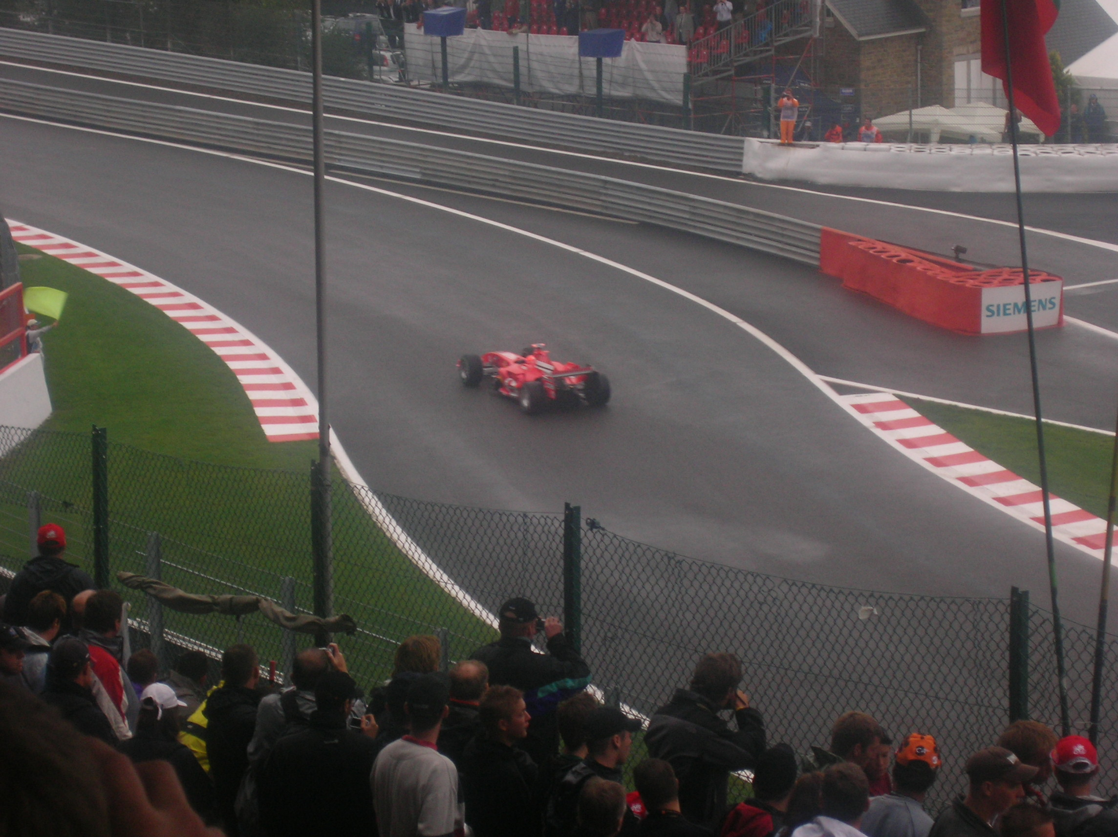 Michael Schumacher at Spa main Straight